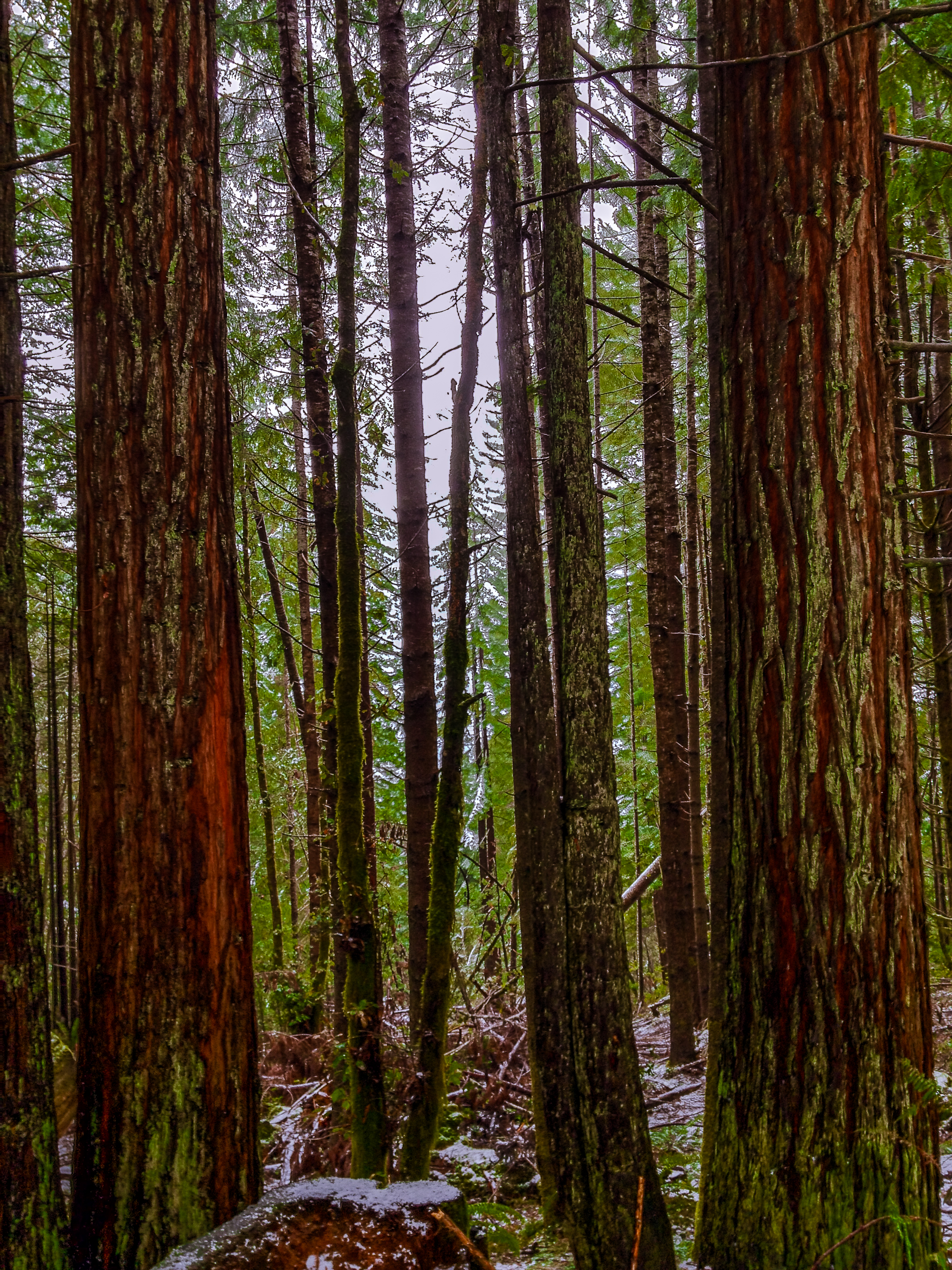 Northern California redwoods